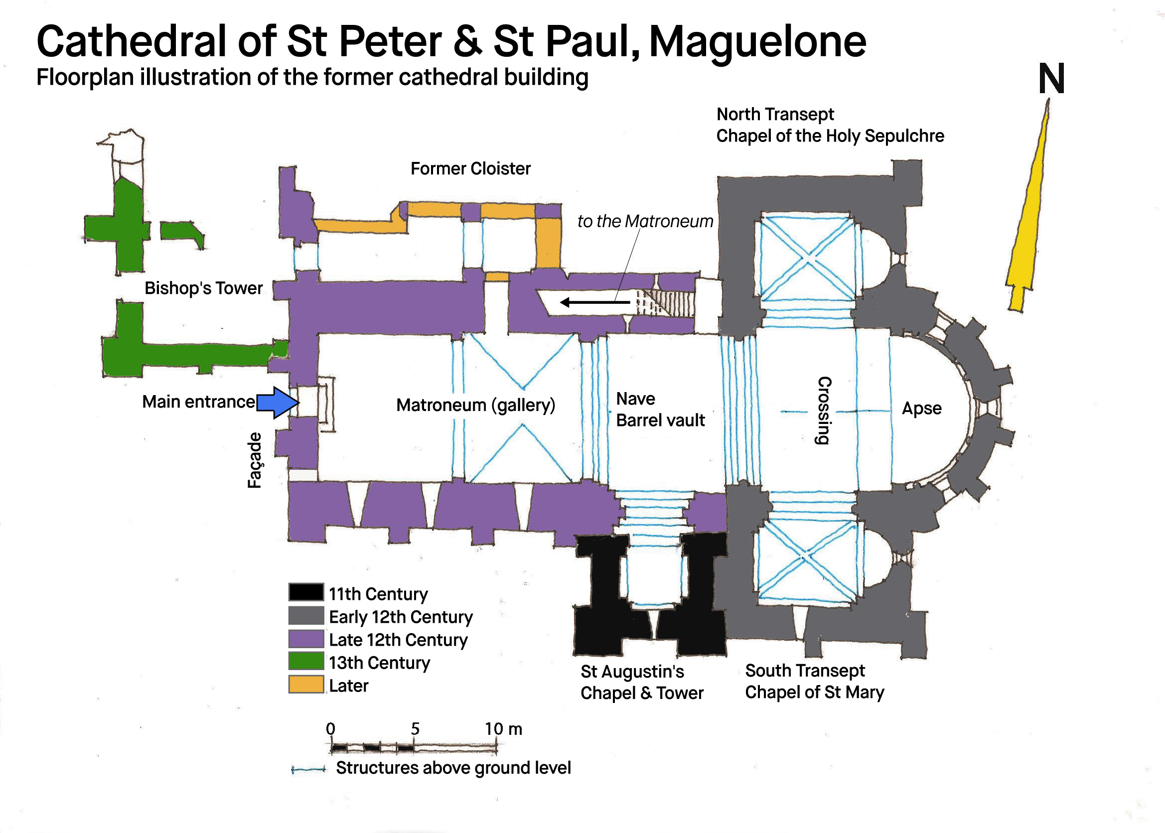 Cathedral of St Peter & St Paul, Maguelone Floorplan illustration of the former cathedral building